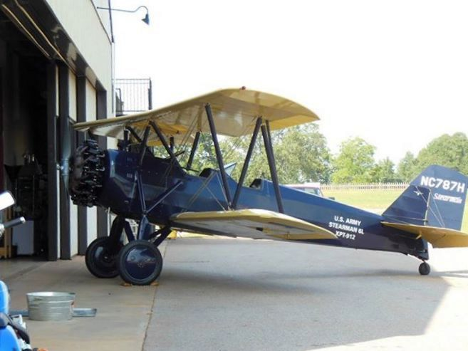 Stearman Cloudboy, 6L, registration NC787H. Photo taken during hangar maintenance, August 2014. Located at American Airways hangar, Peach State Airport (GA2) in Williamson, GA.